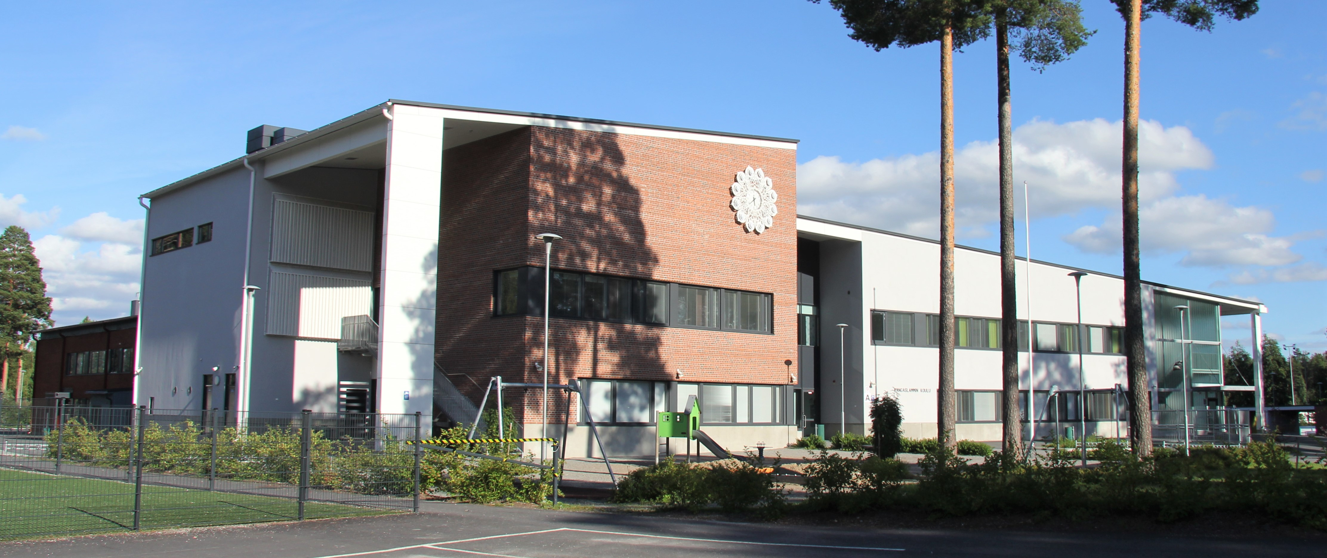 Kangaslampi School is an elementary school in Iisalmi, Finland.